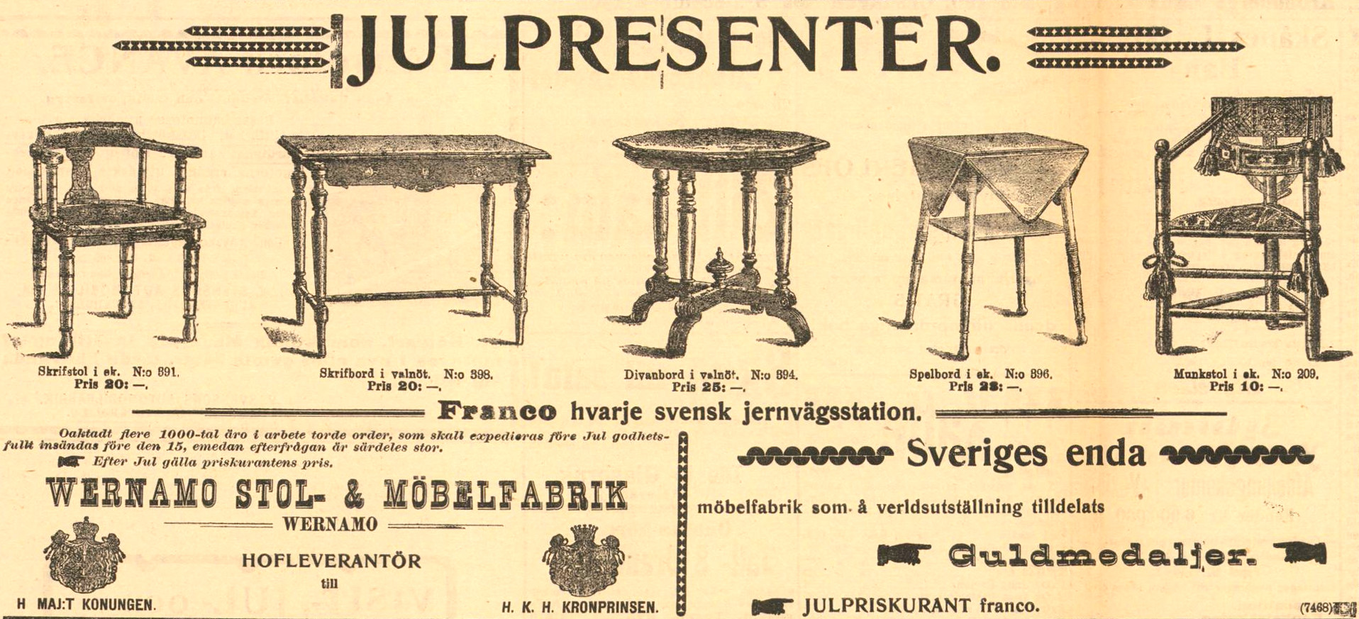 Advertisement for "Christmas gifts" (julpresenter) from Wernamo stol- & möbelfabrik (Wernamo chair and furniture factory) in Värnamo, Sweden, published on December 9, 1903, in regional newspaper Smålandsposten.